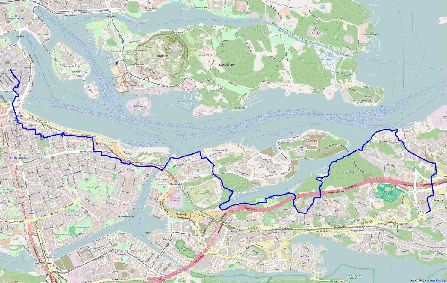 The Nackastråket hiking trail in Stockholm, Sweden.